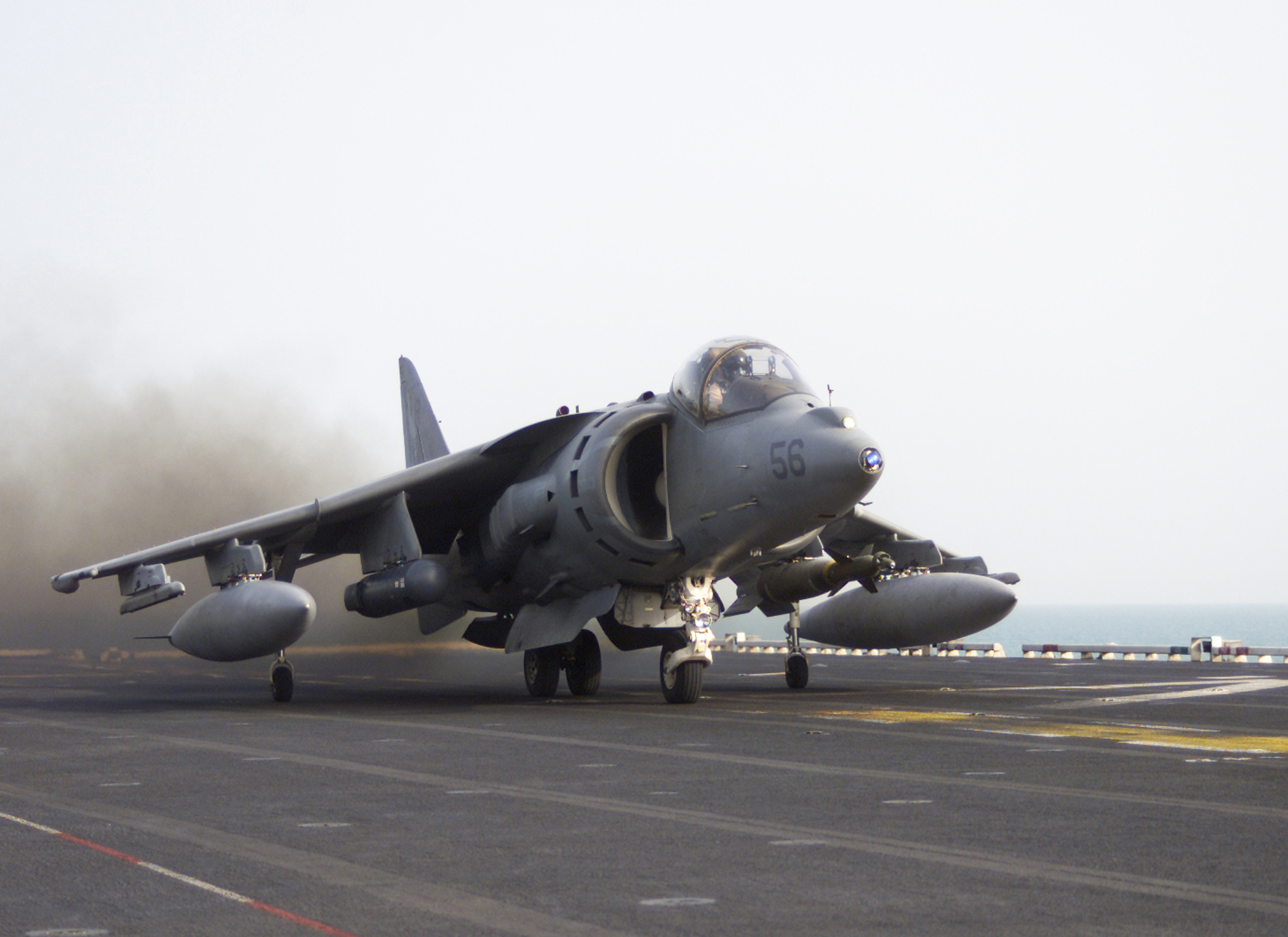 The Arabian Gulf (Mar. 25, 2003) -- A Marine Corps AV-8B Harrier attack jet begins its takeoff roll on the flight deck of the USS Tarawa (LHA 1) on its way to provide close air support (CAS) for United States and Coaltion ground forces in southern Iraq in support of Operation Iraqi Freedom. Operation Iraqi Freedom is the multinational coalition effort to liberate the Iraqi people, eliminate Iraq's weapons of mass destruction and end the regime of Saddam Hussein. U.S. Navy photo by Chief Photographer's Mate Tom Daily. (RELEASED)